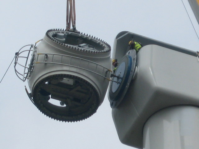 Connecting Hub to Turbine Tower No 11. With just a couple of feet to go this is where the skill and expertise of the crane operator comes into its own. At 60 metres up from the ground the engineers are in constant contact by radio with the crane operator who has to manoeuvre the 23 ton hub inch by inch in line with the holes on to the rotor shaft so the engineers can insert the 60 securing bolts. 696211 633643 696917 777641 687214 786458 Turbine details: Tower Height: 60m Blade Length: 40m Total Max Height: 100m Manufacturer: Nordex Model: N80